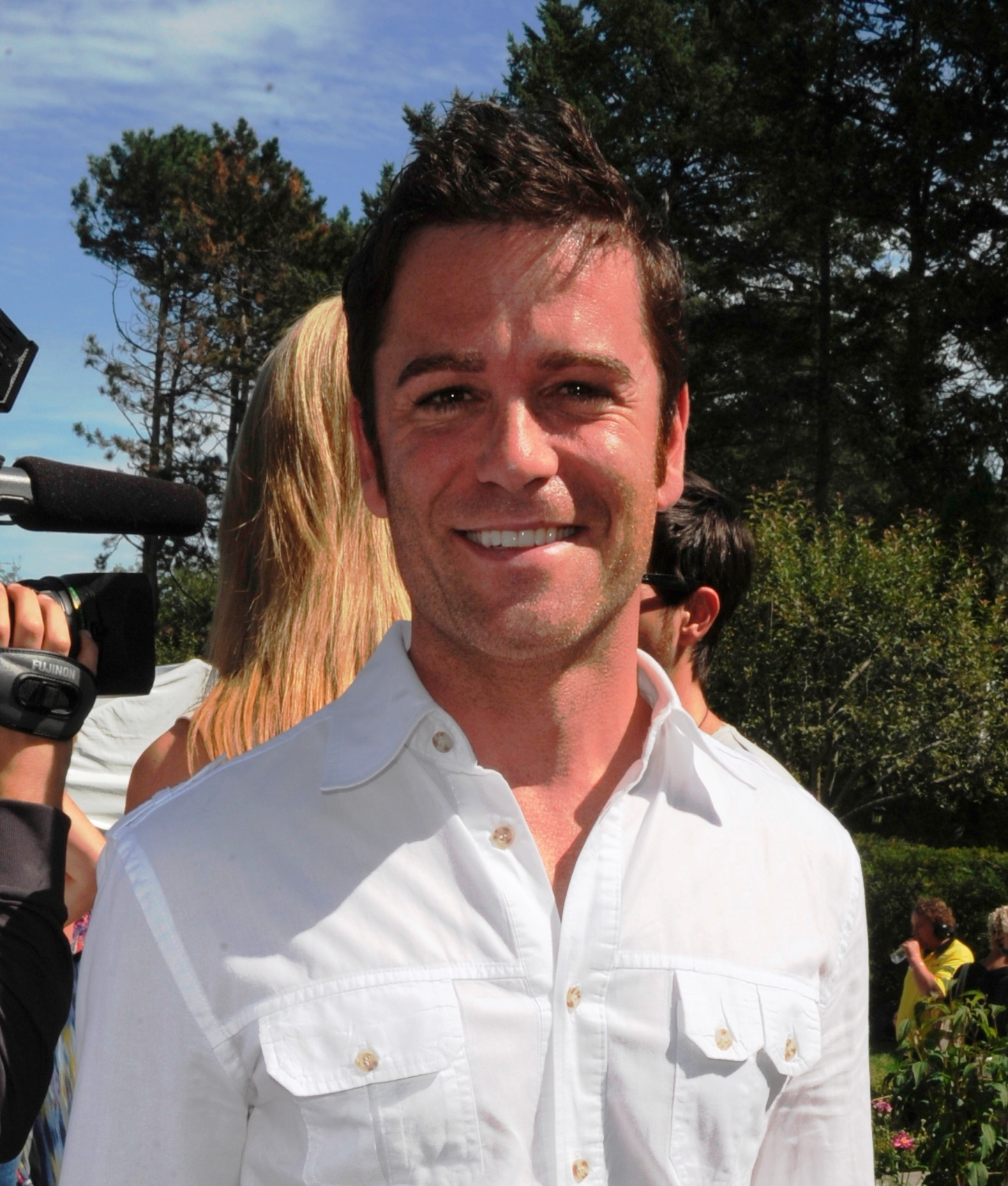 close up for better identification